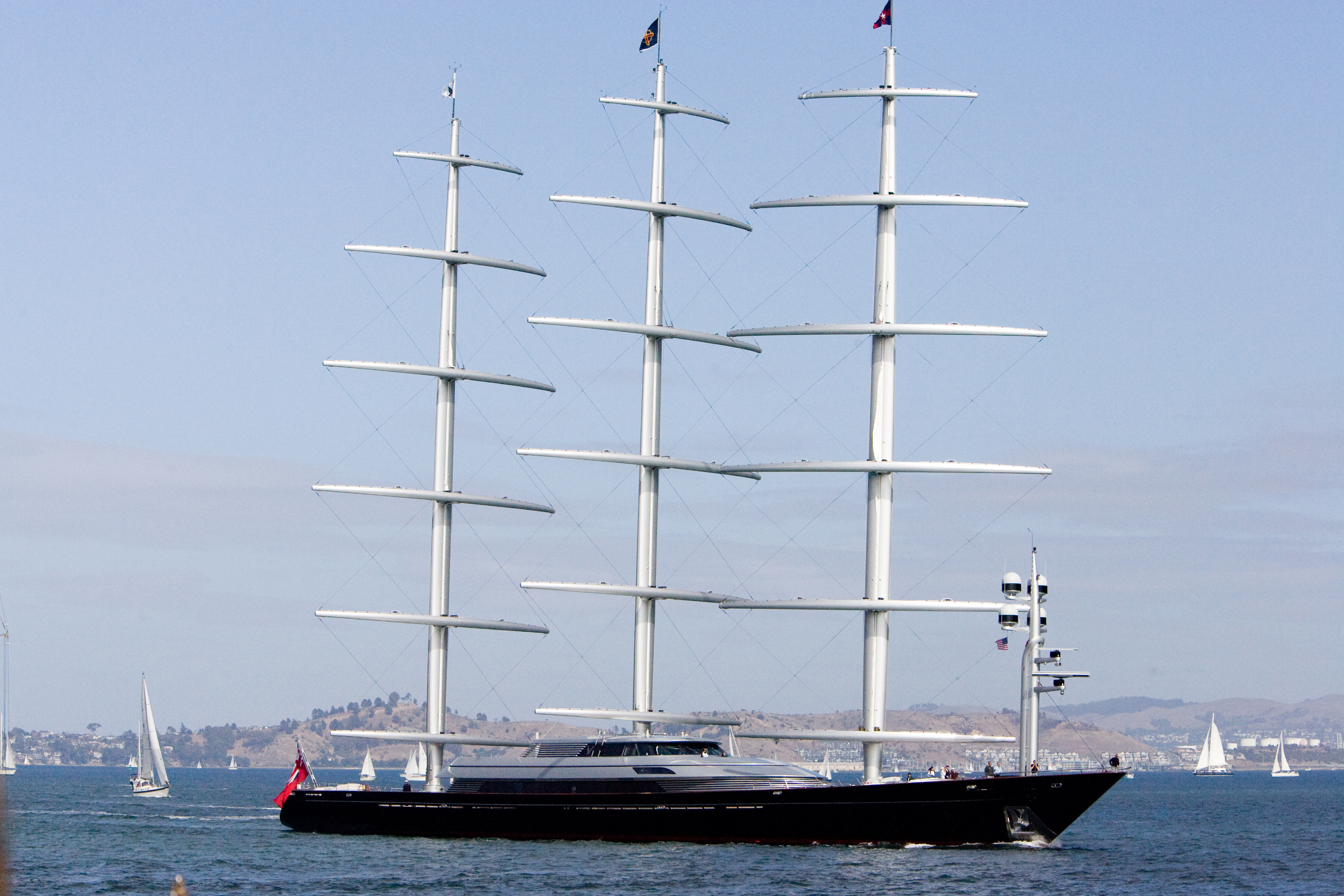 The Maltese Falcon, luxury yacht owned by Tom Perkins. Photo taken while sailing in San Francisco Bay, California.